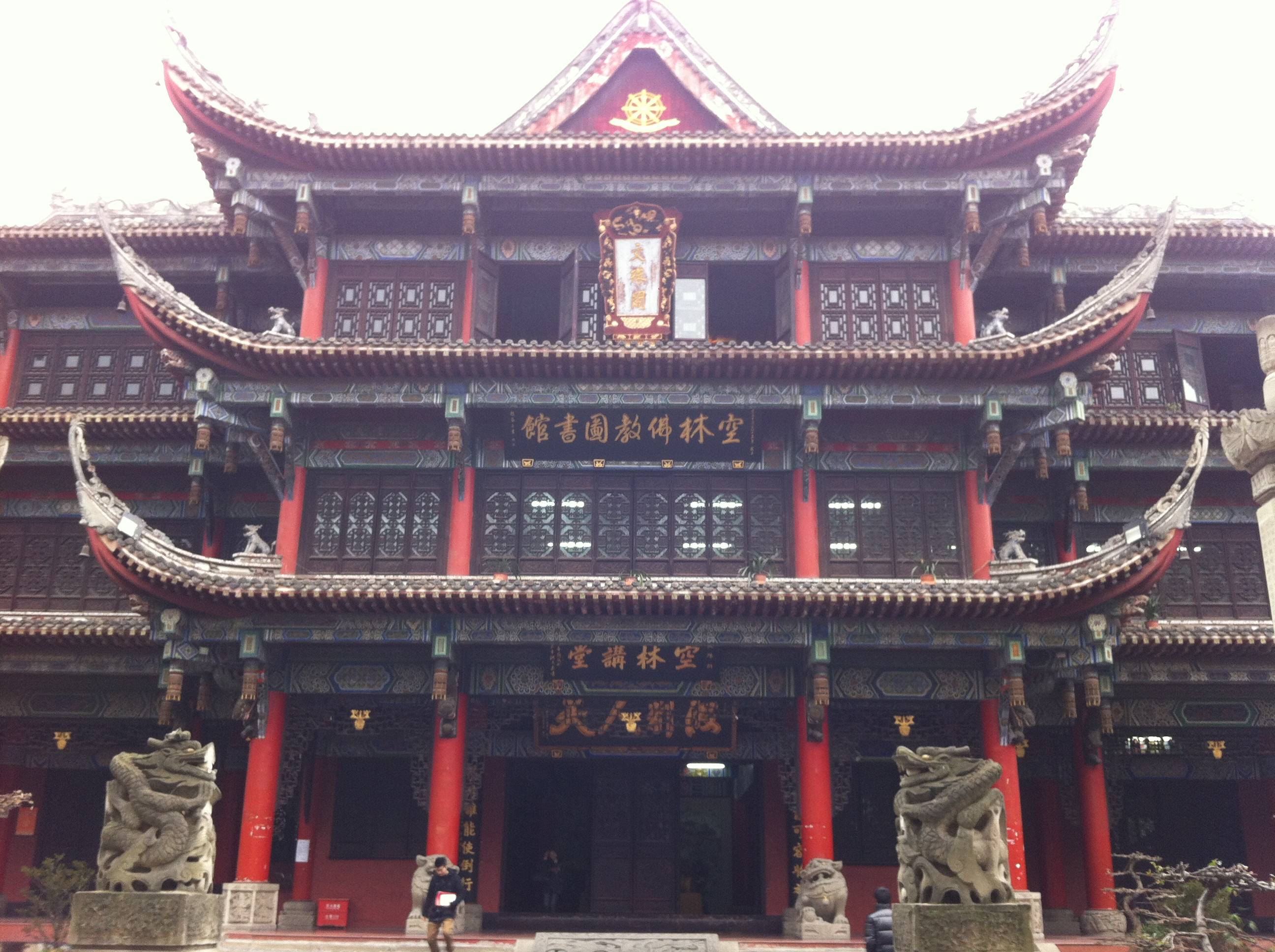 wenshu1